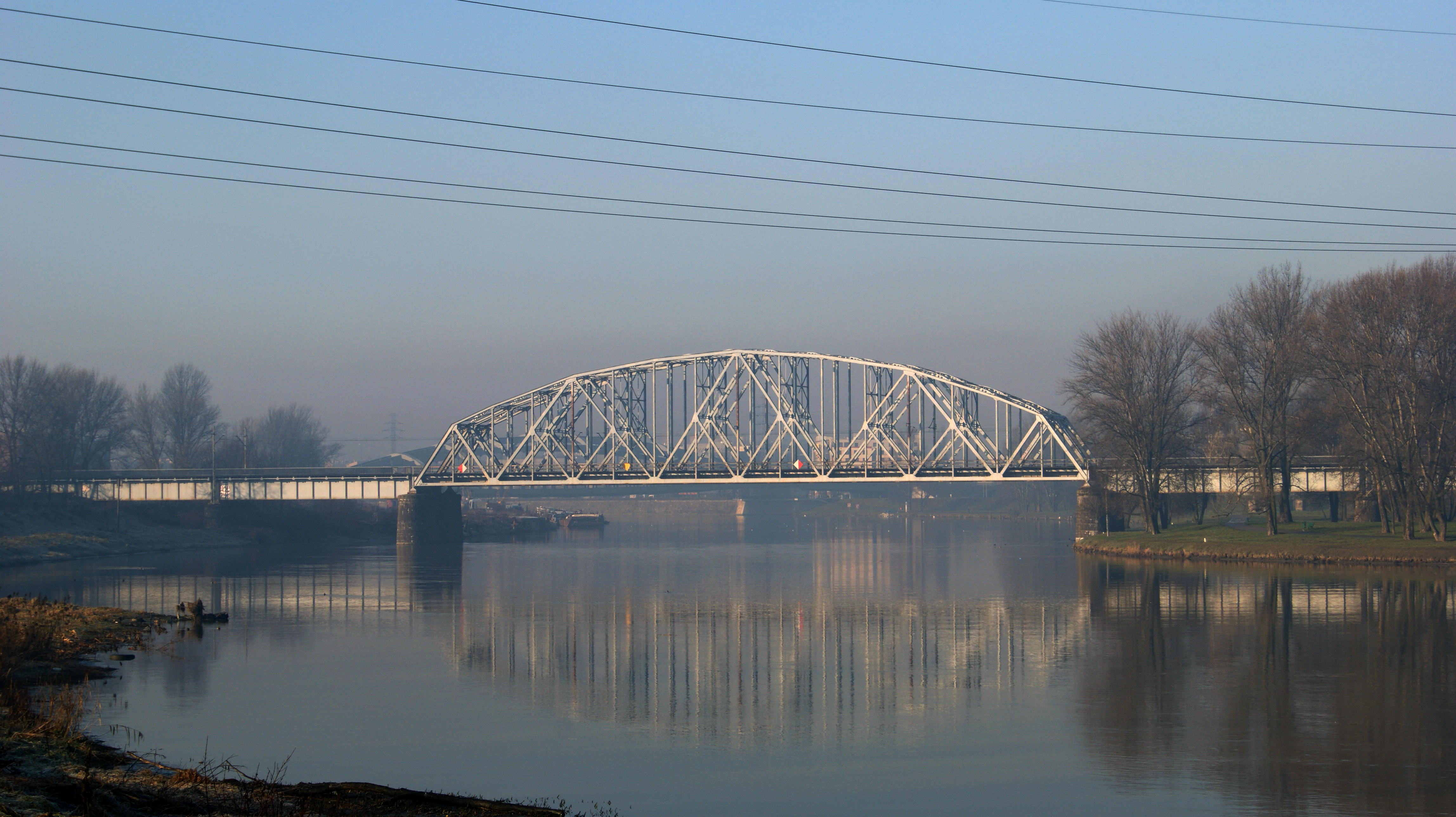 Railroad Bridge Dabie,Krakow,Poland